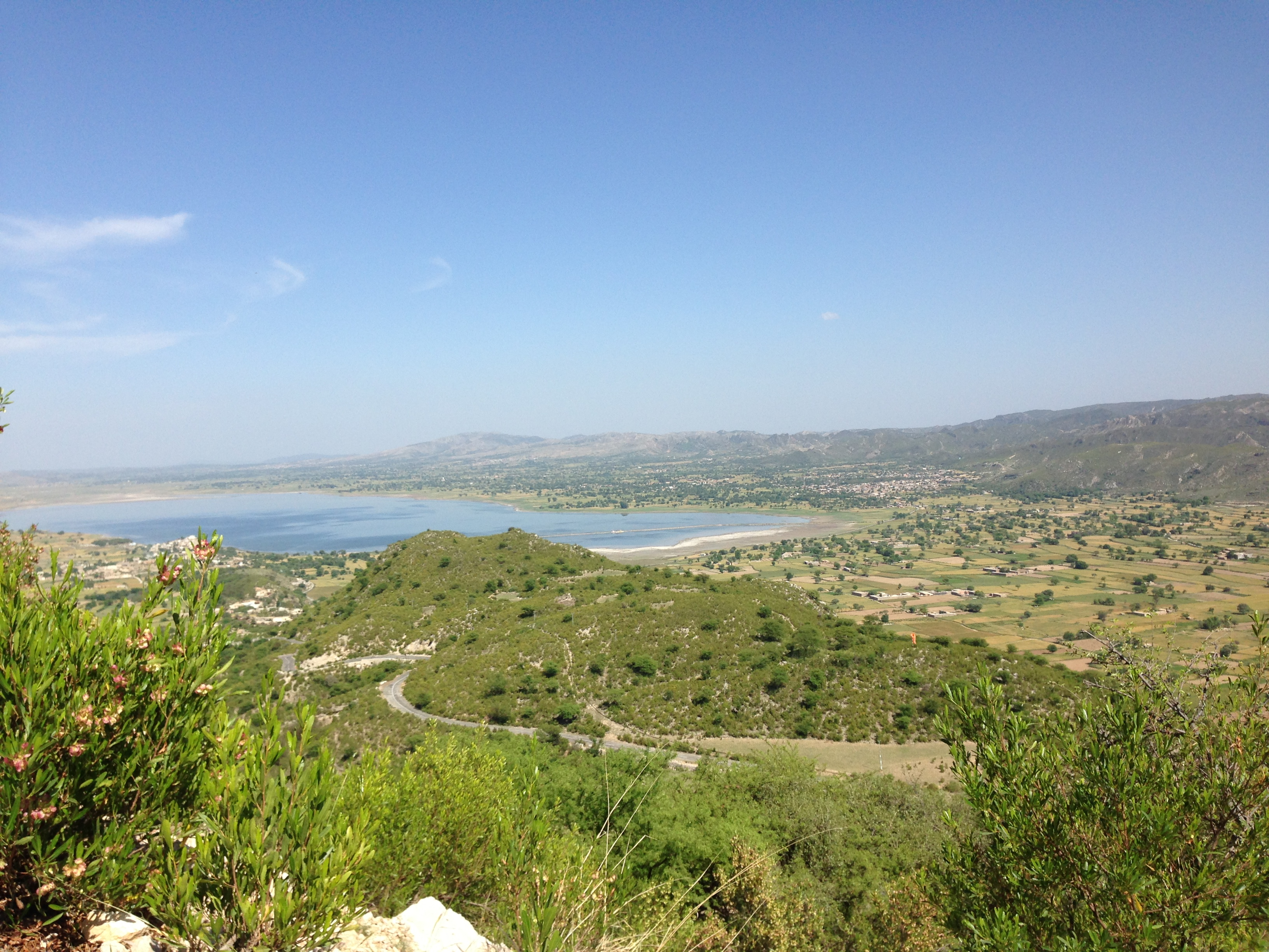 Descent from Skesar Airbase - A view of Uchali Lake, Sakesar - Road, Sakesar